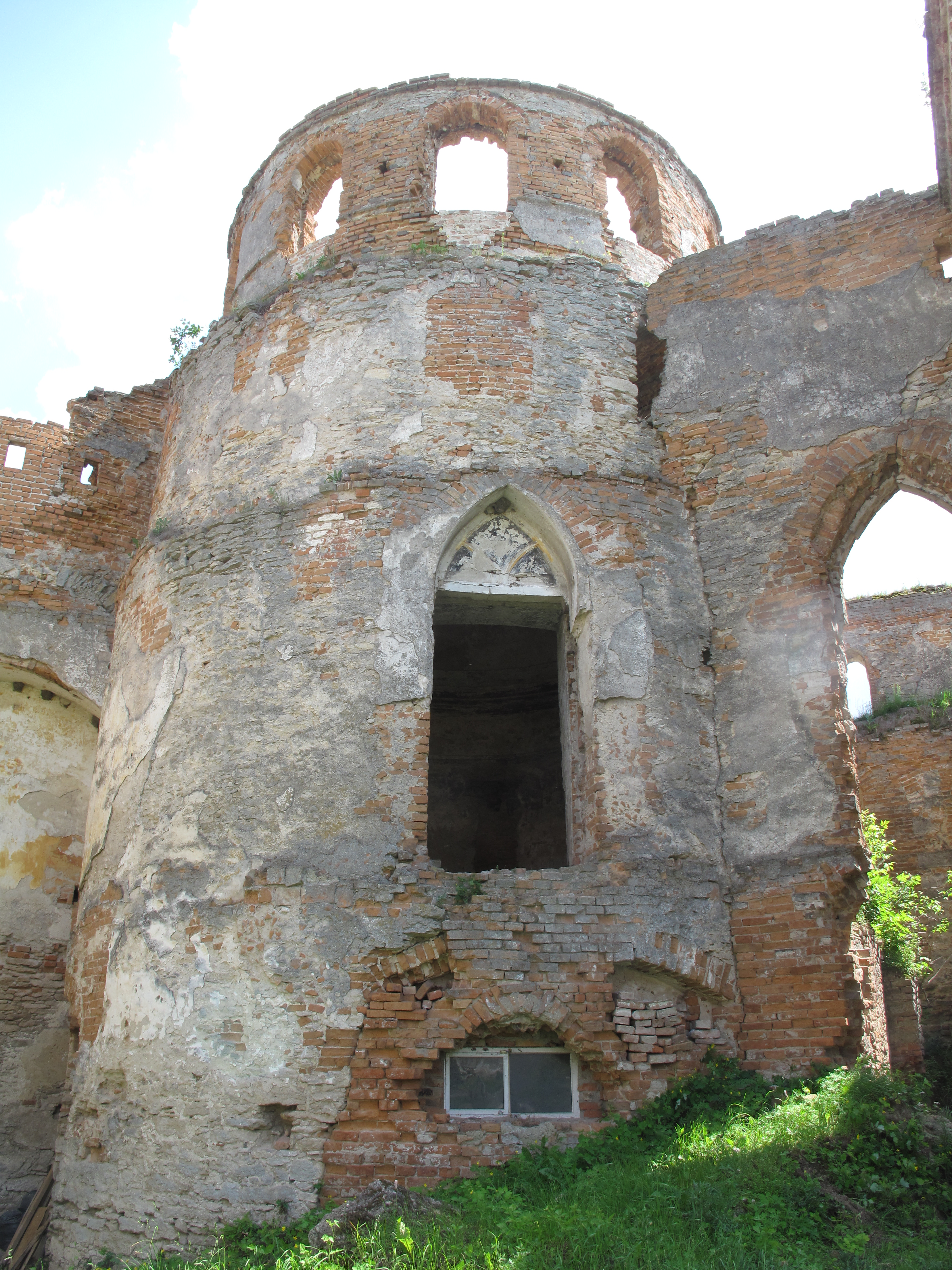 Officer Tower of Medzhybizh castle